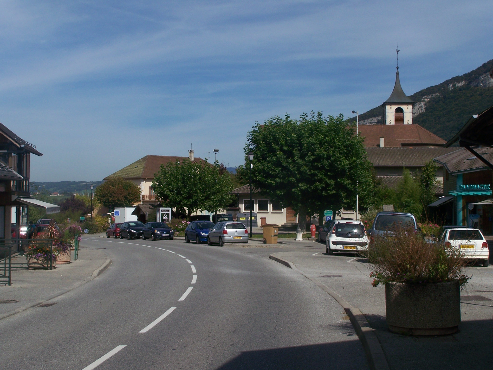 The French commune of Sillingy, Haute-Savoie.